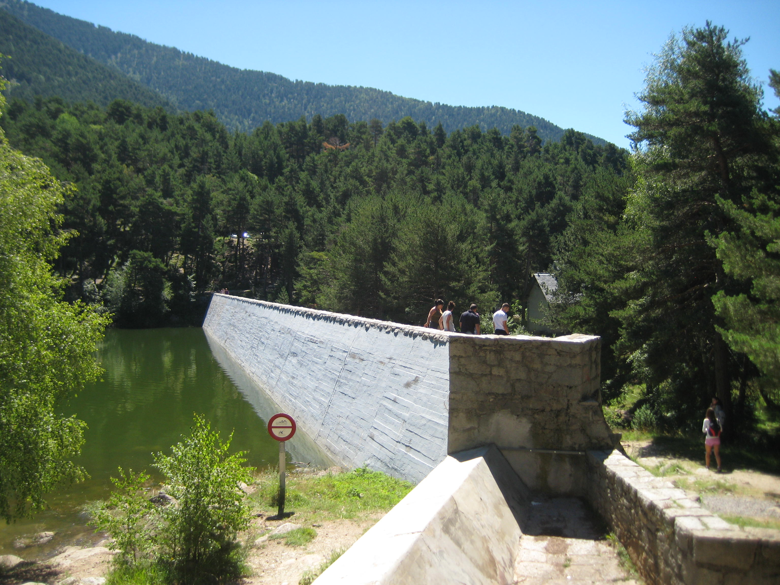 Engolasters dam